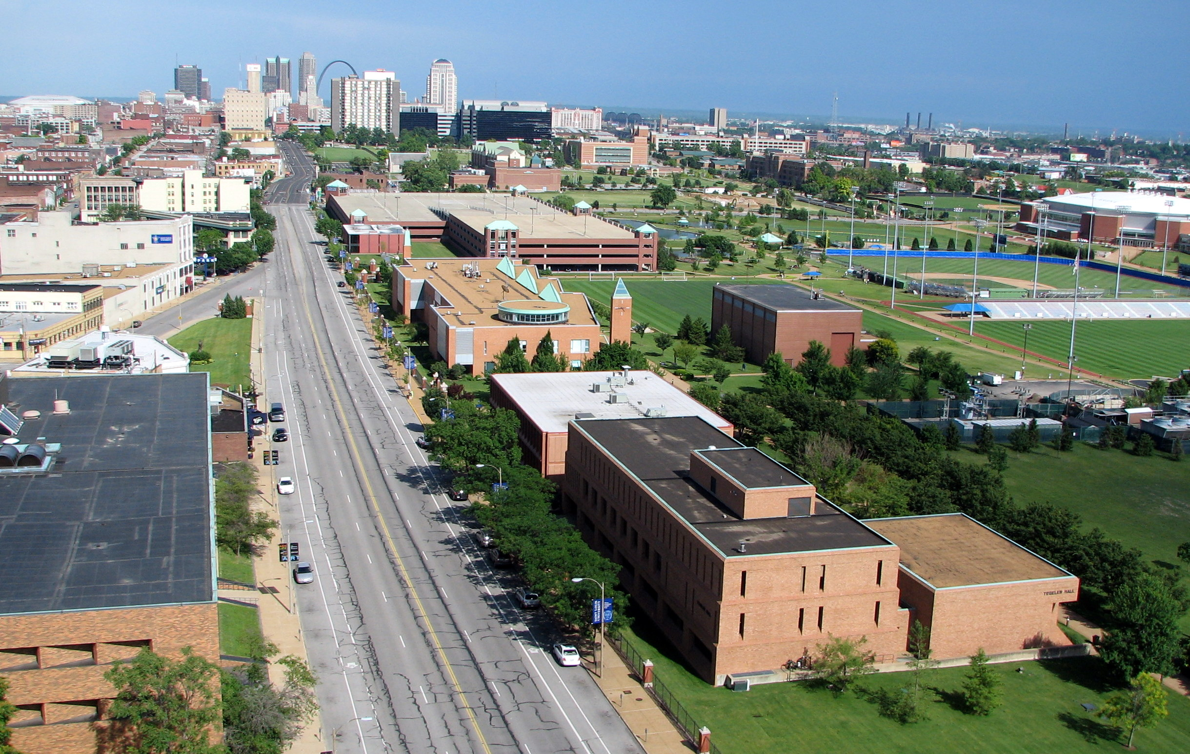 Northeast quarter of Saint Louis University, showing the university's proximity to downtown Saint Louis and SLU's Parks College of Engineering, Aviation, and Technology.